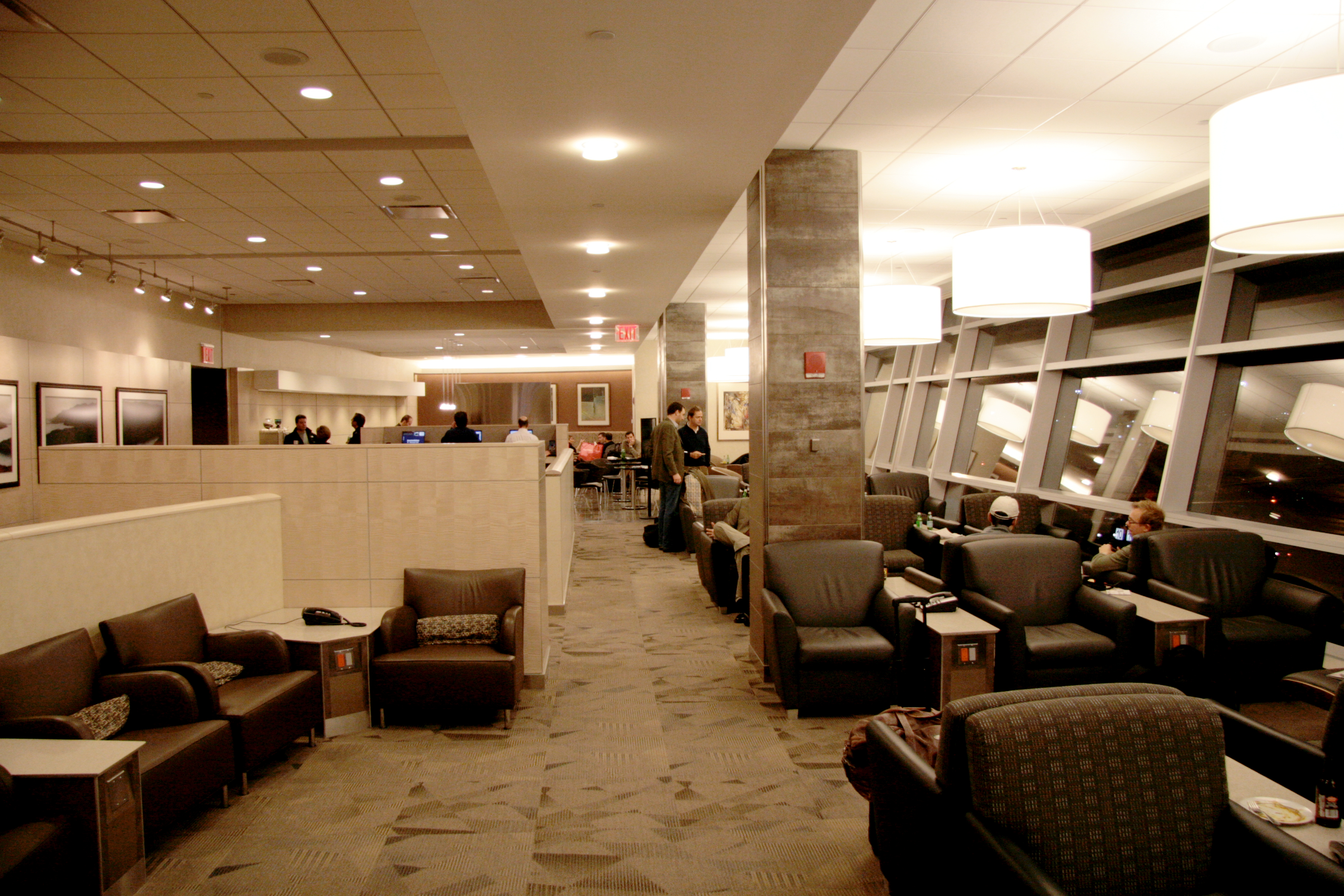 American Airlines Admirals Club in December 2007.